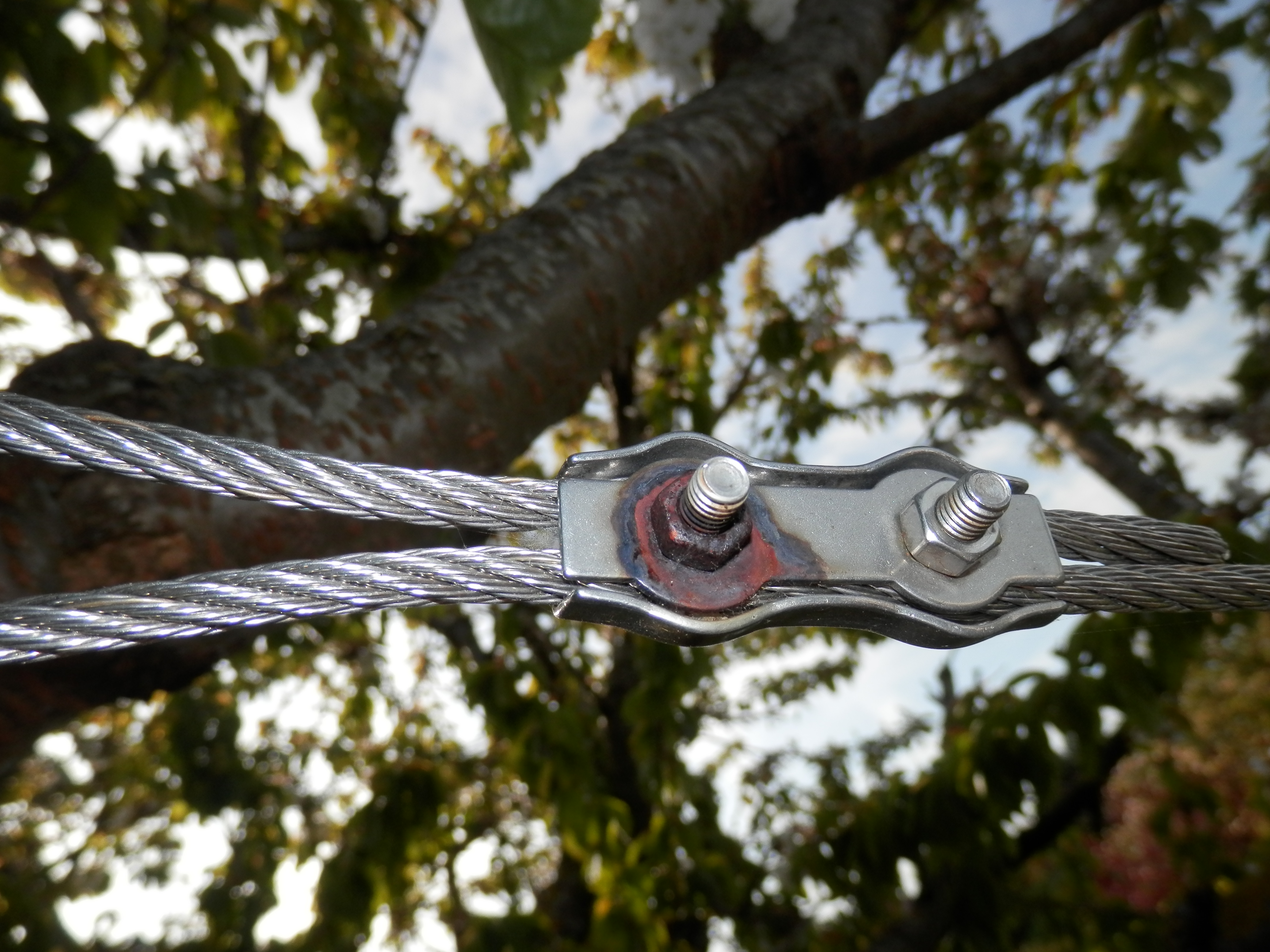 left nut tiying this zip-line is not in inox and is rusty